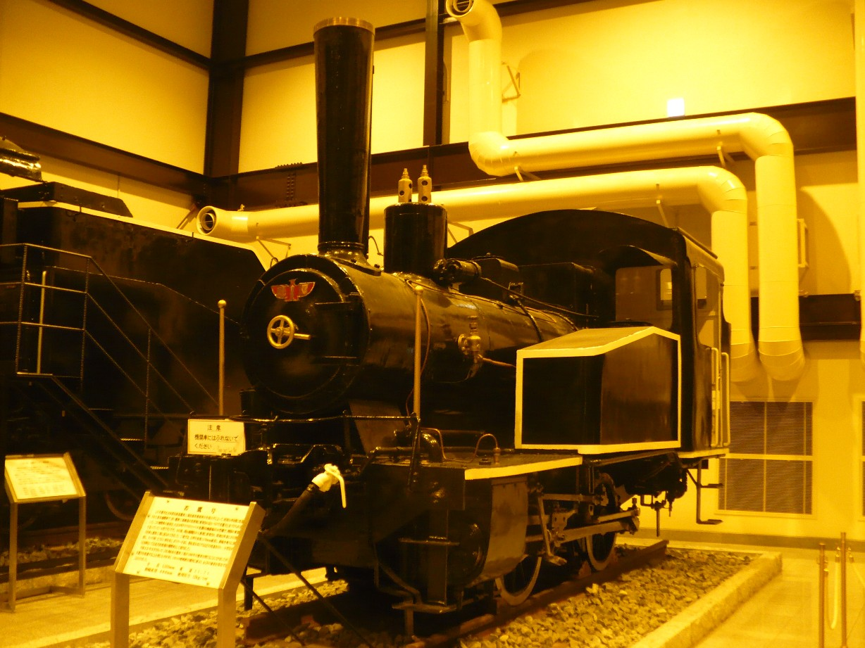 Wakataka steam locomotive preserved at 19th-century hall, Kyoto, Kyoto, Japan. From left front position.